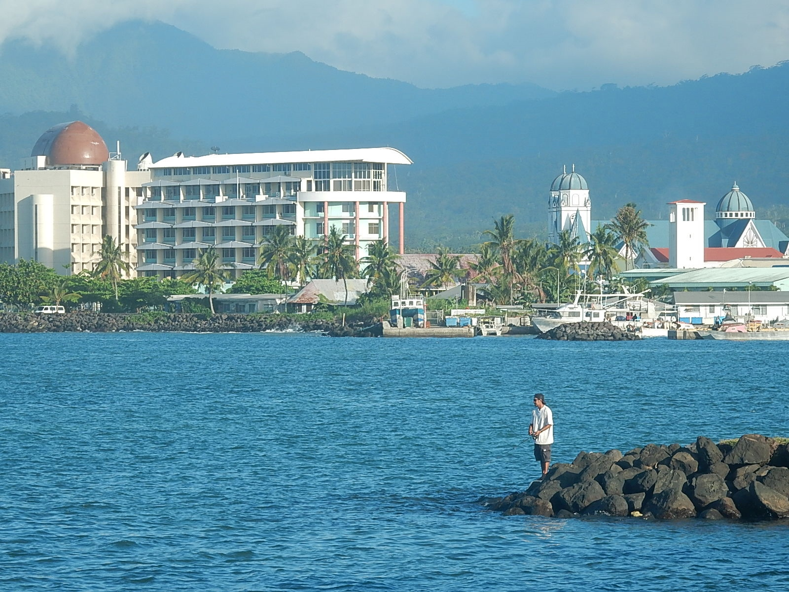 Apia Harbour View